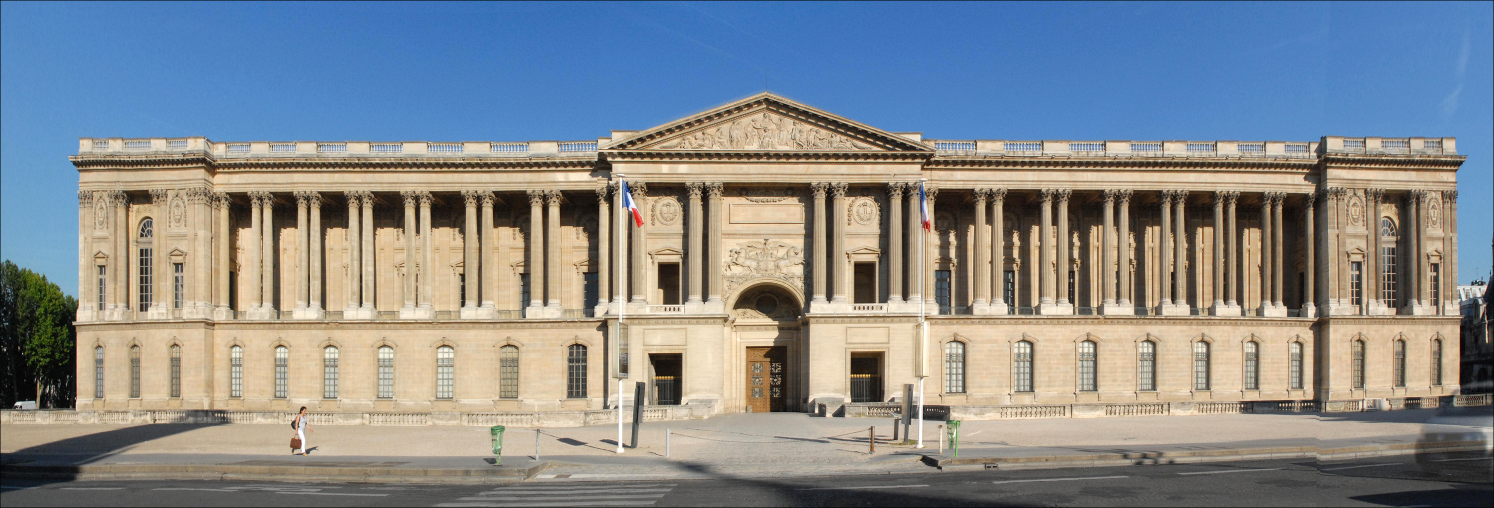 The eastern facade of the Louvre is called Perrault's Colonnade.